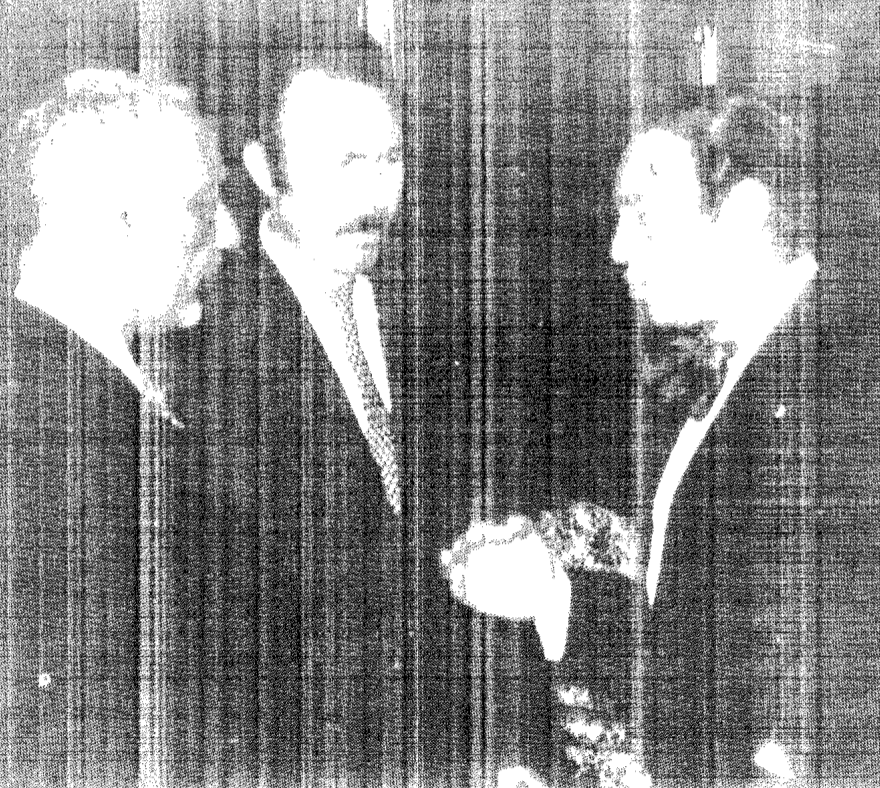 1973 summit meeting on Spanish Sahara in Agadir, Morocco. From left to right, Mauritanian President Ould Daddah, Algerian President Boumediene, Moroccan King Hassan